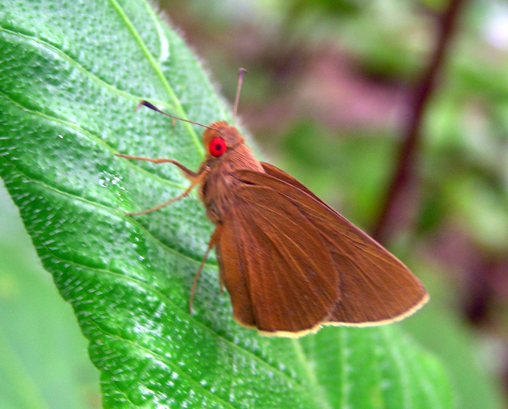 Common Redeye